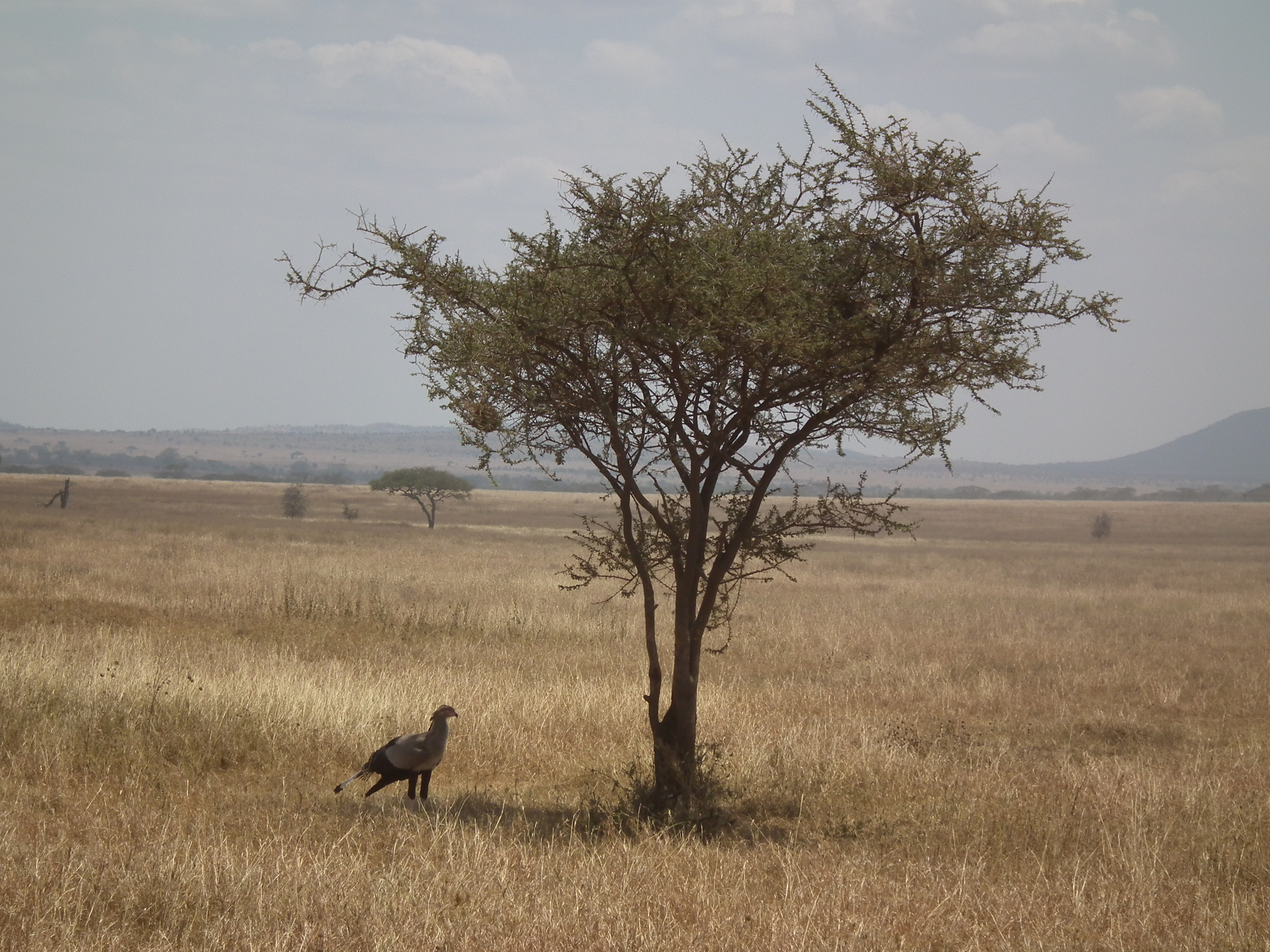 Secretary bird (Sagittarius serpentarius) in Tanzania